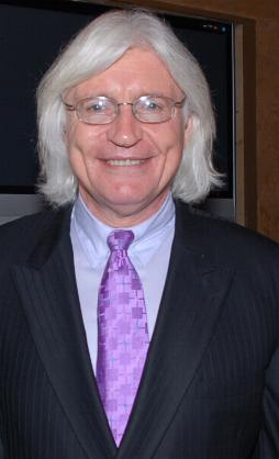 Thomas Mesereau at the launch of Mamie Van Doren's new wine